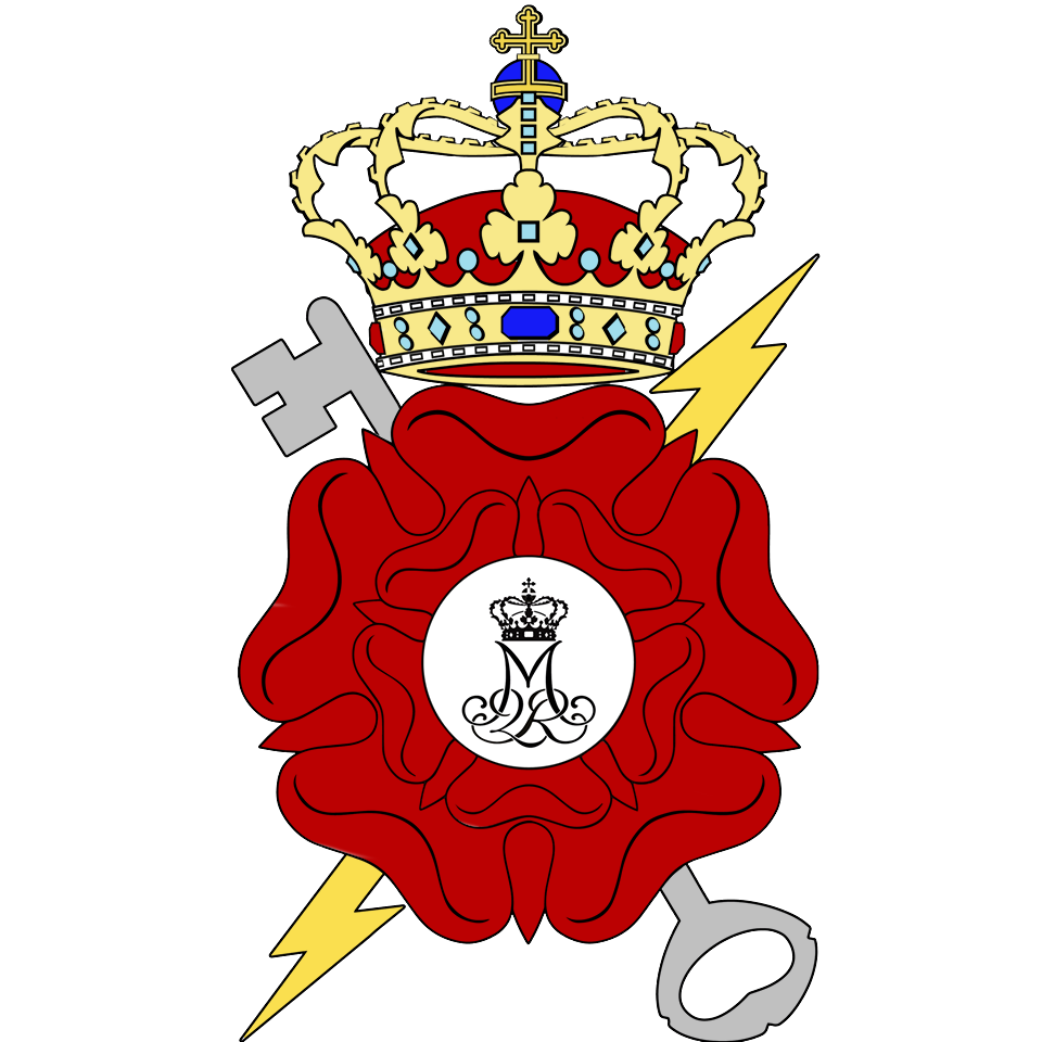 Army Intelligence Center logo